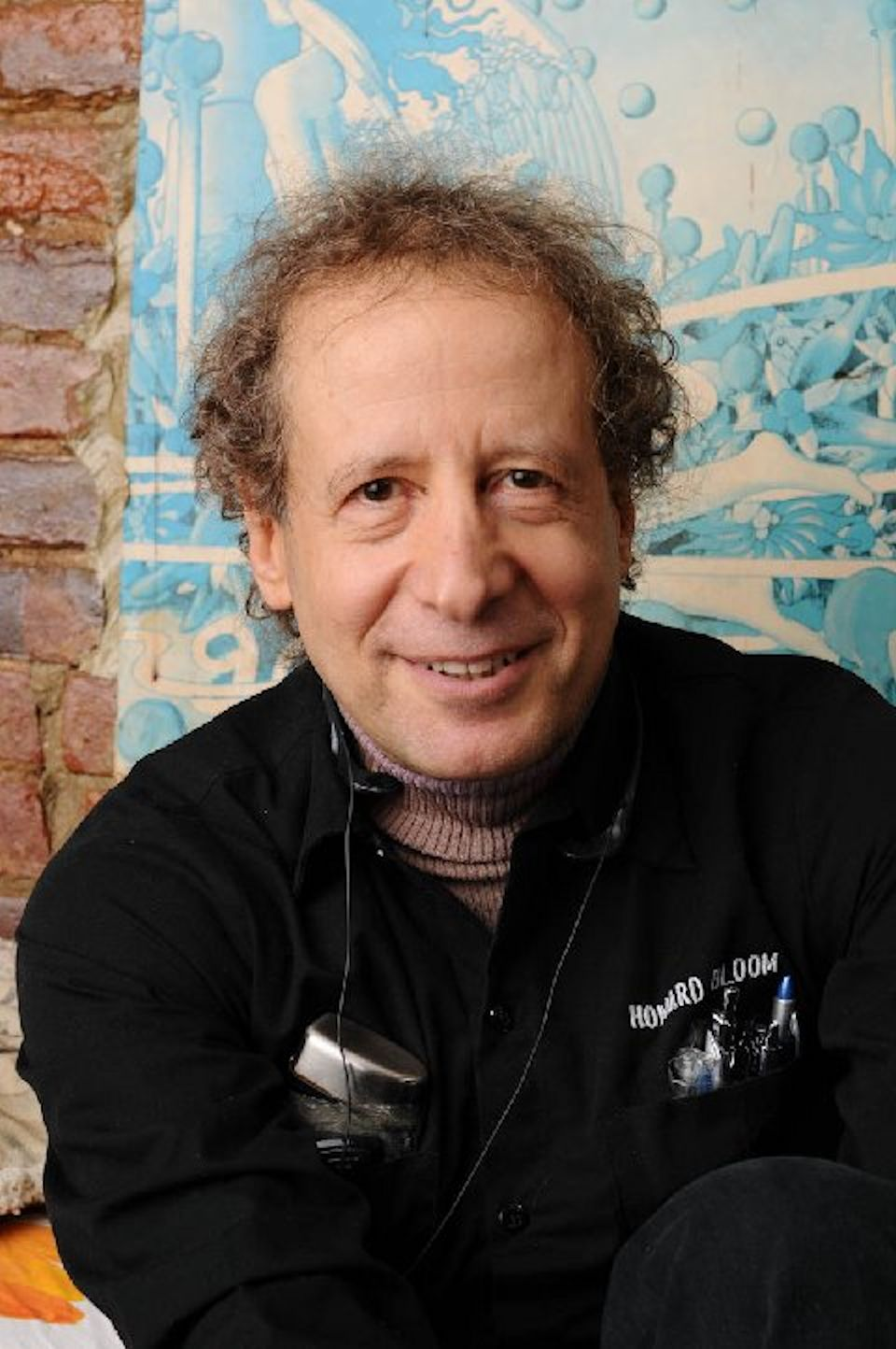 Howard Bloom Wikipedia Portrait